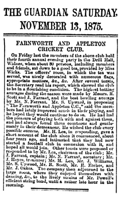 Scan of newspaper cutting.